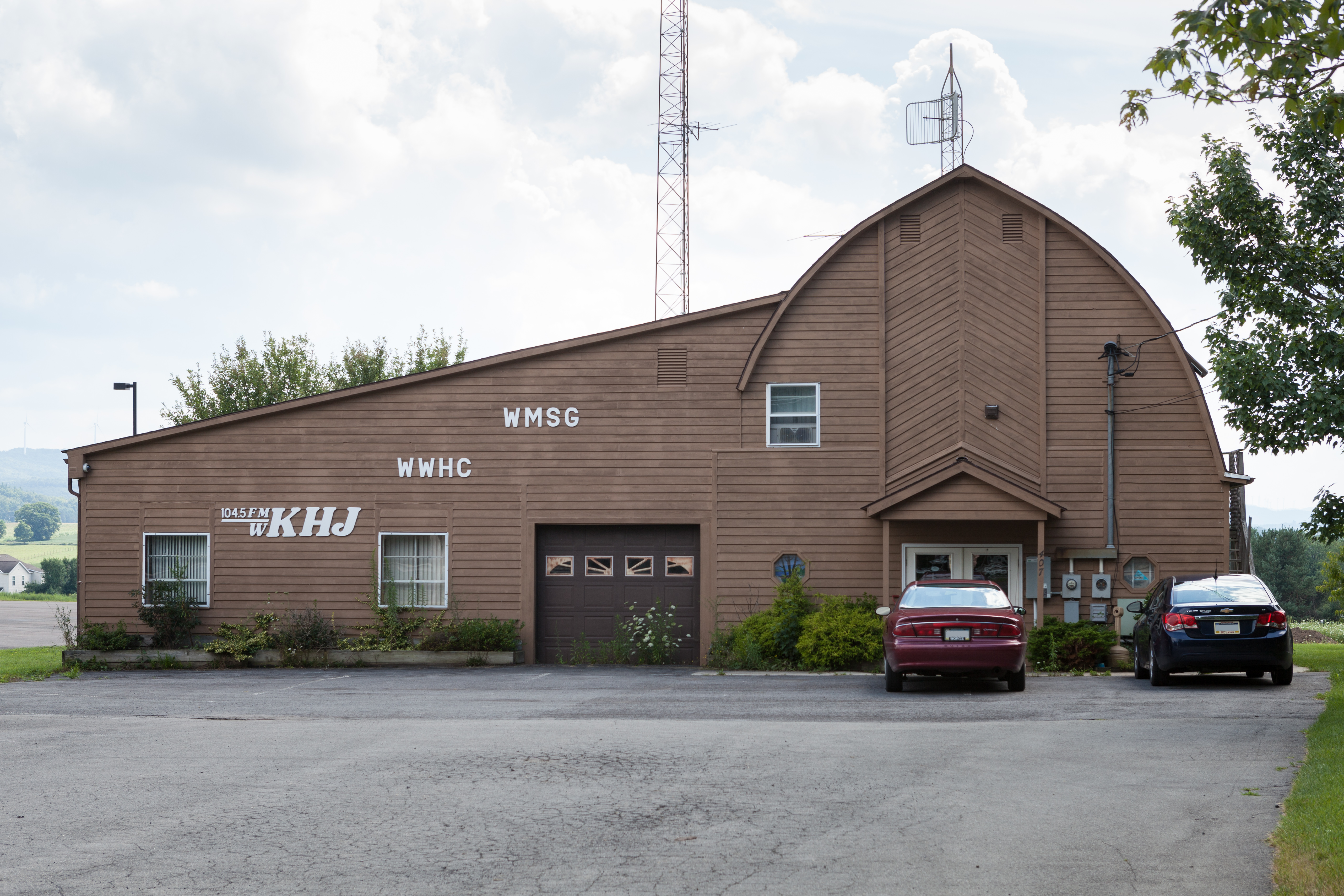 The front of the studio building for WKHJ-FM, WMSG-AM, and WWHQ-FM (formerly WWHC), at 407 Lothian Street, Loch Lynn Heights, Maryland.